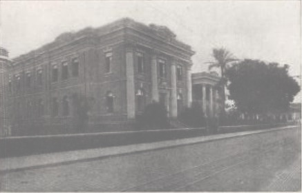 Colégio Piracicabano the first Methodist school of Brazil and forerunner of the Methodist University of Piracicaba